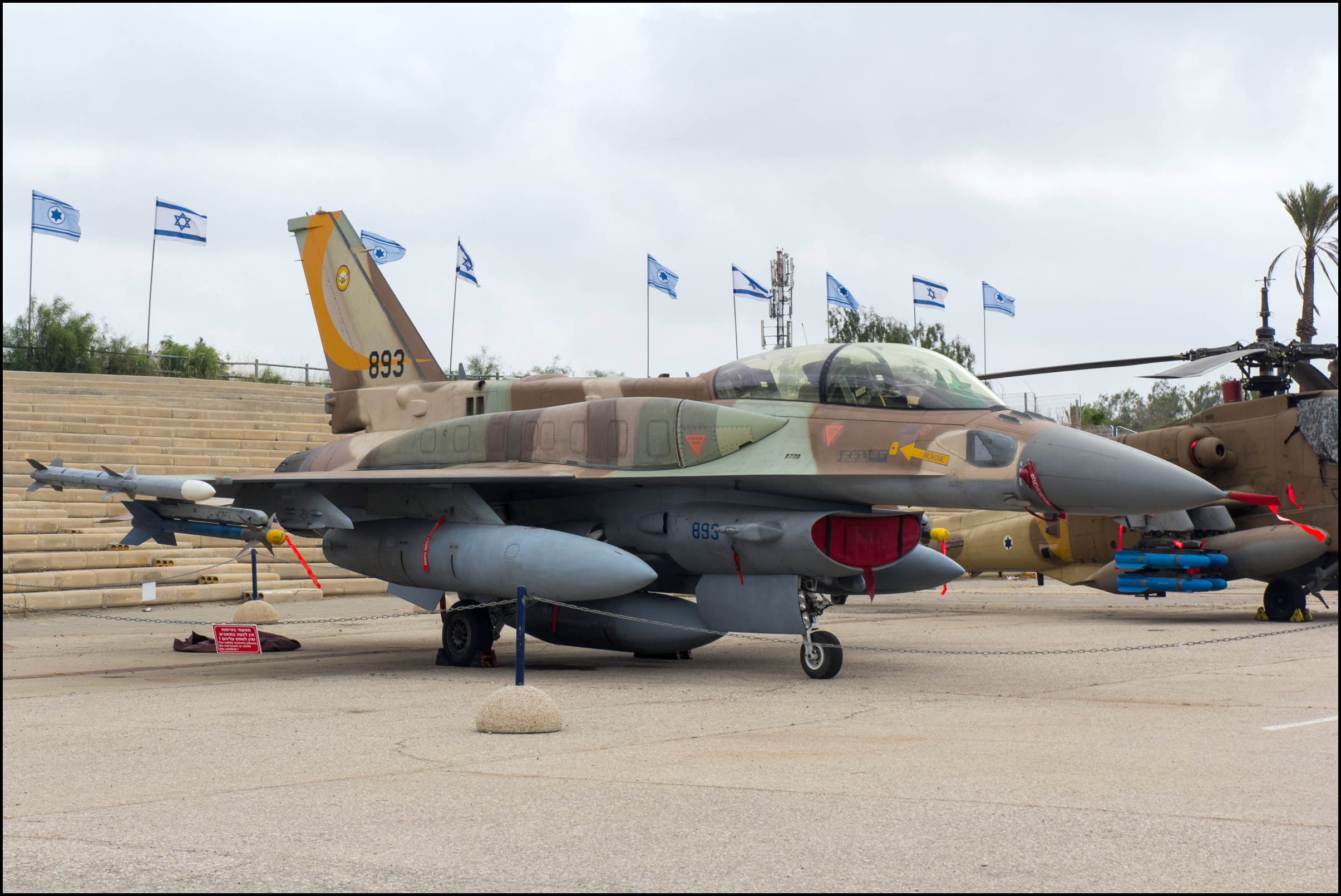 Israeli Air Force F-16I Sufa